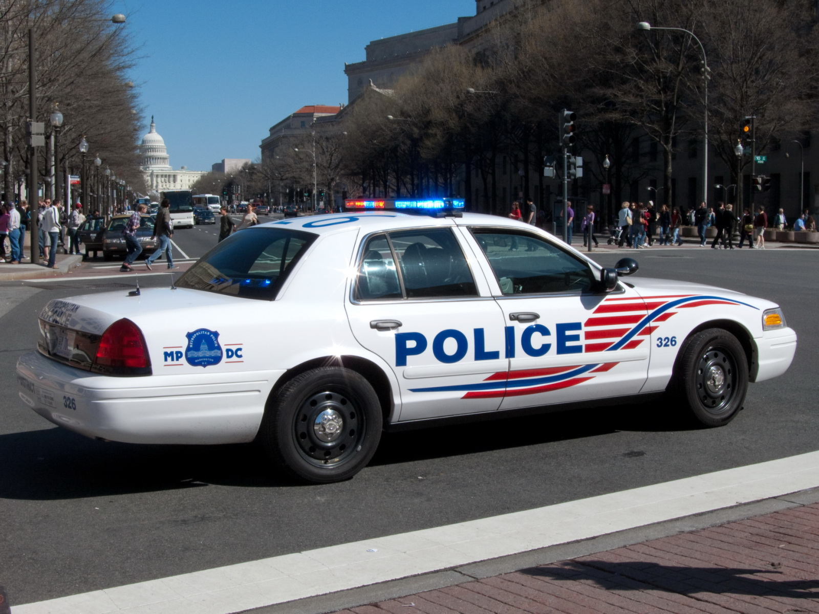 One of the ten largest local police agencies in the United States, the MPDC is the primary law enforcement agency for the District of Columbia. Founded in 1861, the MPDC of today is on the forefront of technological crime fighting advances, from highly developed advances in evidence analysis to state-of the-art-information technology. These modern techniques are combined with a contemporary community policing philosophy, referred to as Customized Community Policing. Community policing bonds the police and residents in a working partnership designed to organize and mobilize residents, merchants and professionals to improve the quality of life for all who live, work, and visit the Nation's Capital.